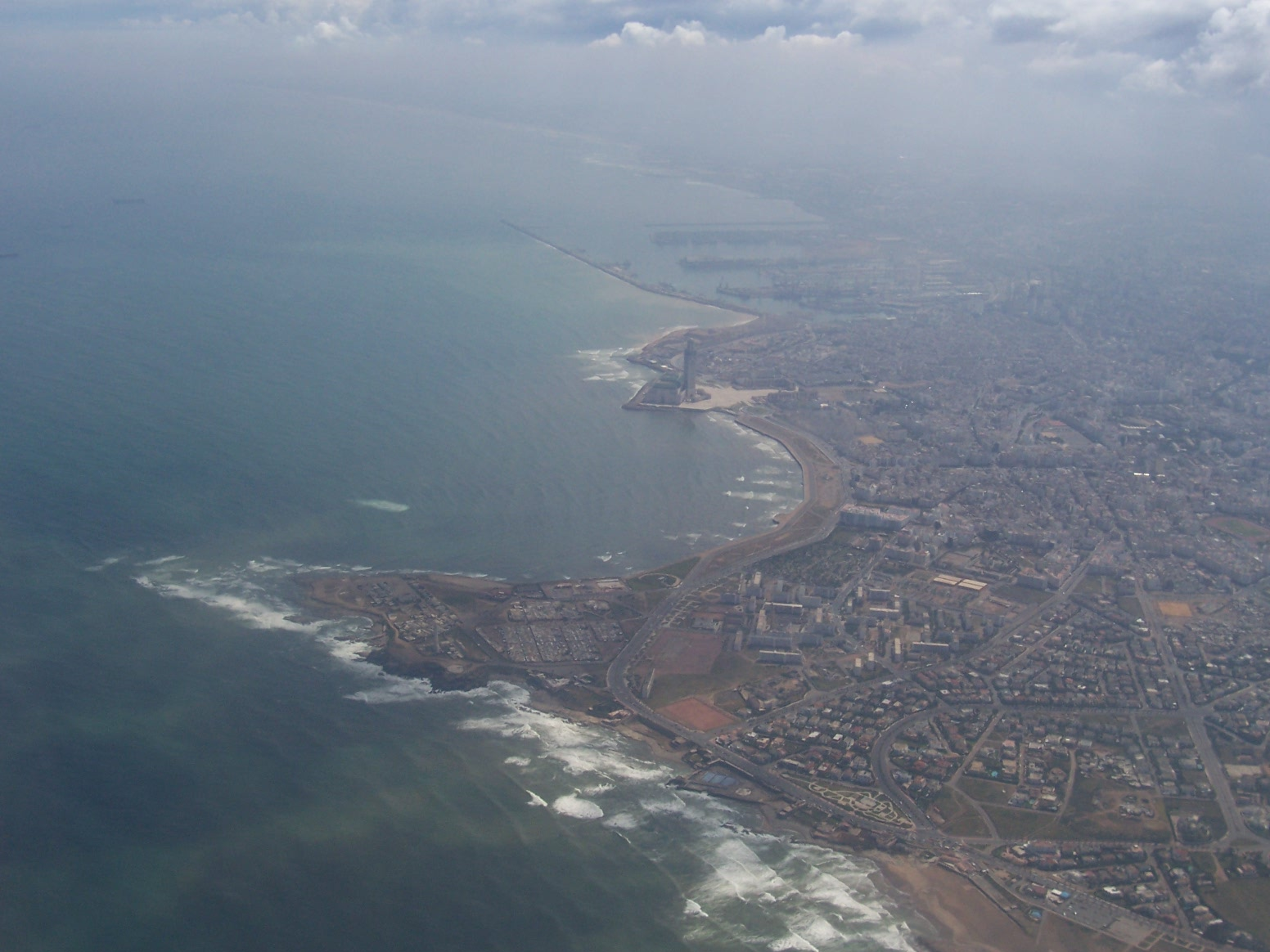 An aerial view of Casablanca.